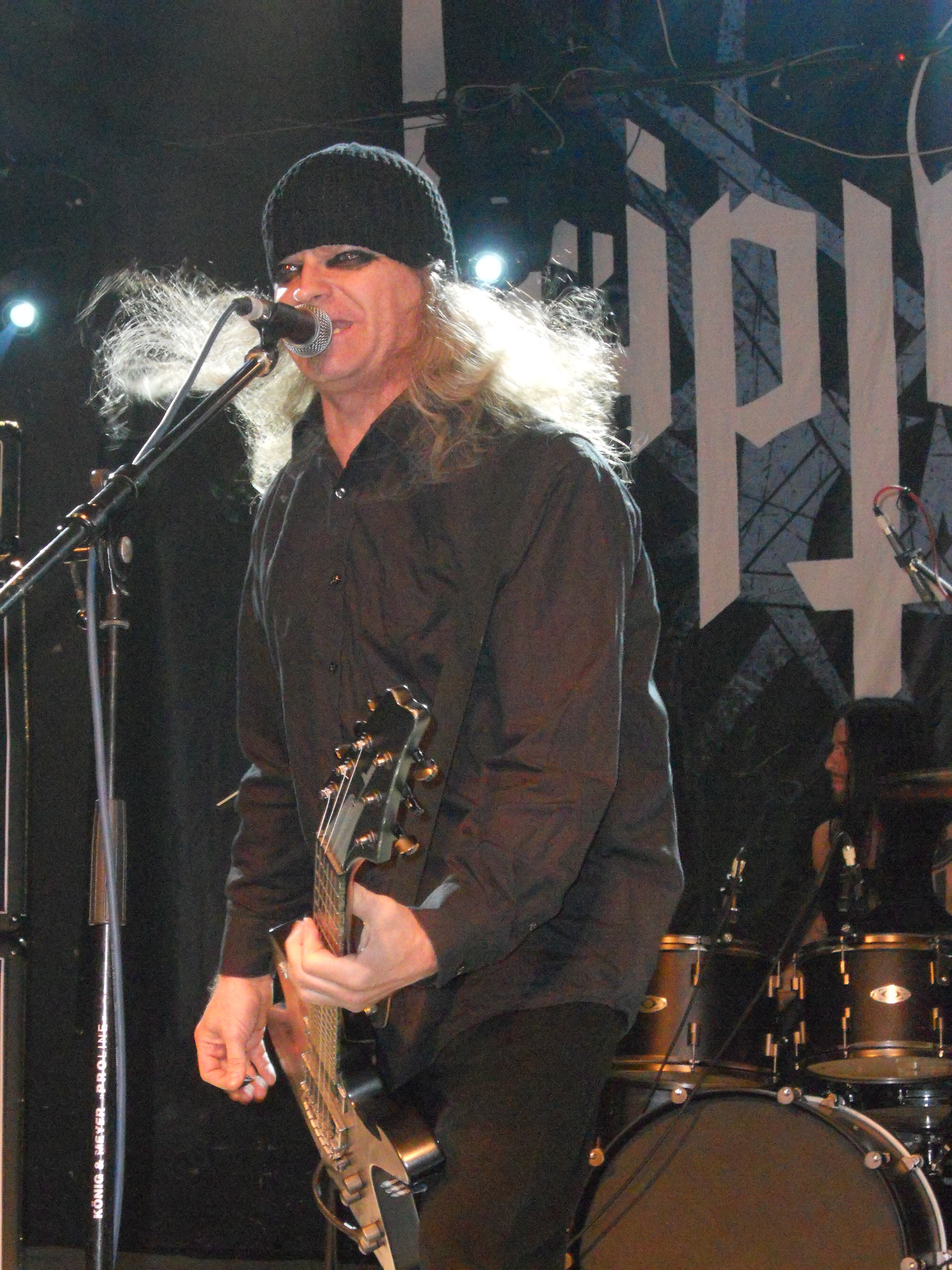 Thomas Gabriel Fischer on stage with Triptykon in Zagreb, Croatia.